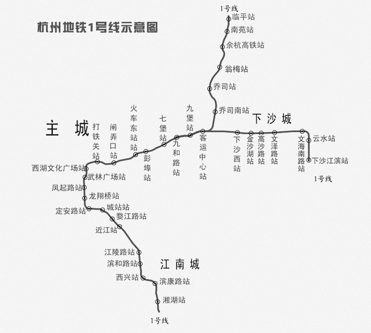 Hangzhou Metro Line 1 map